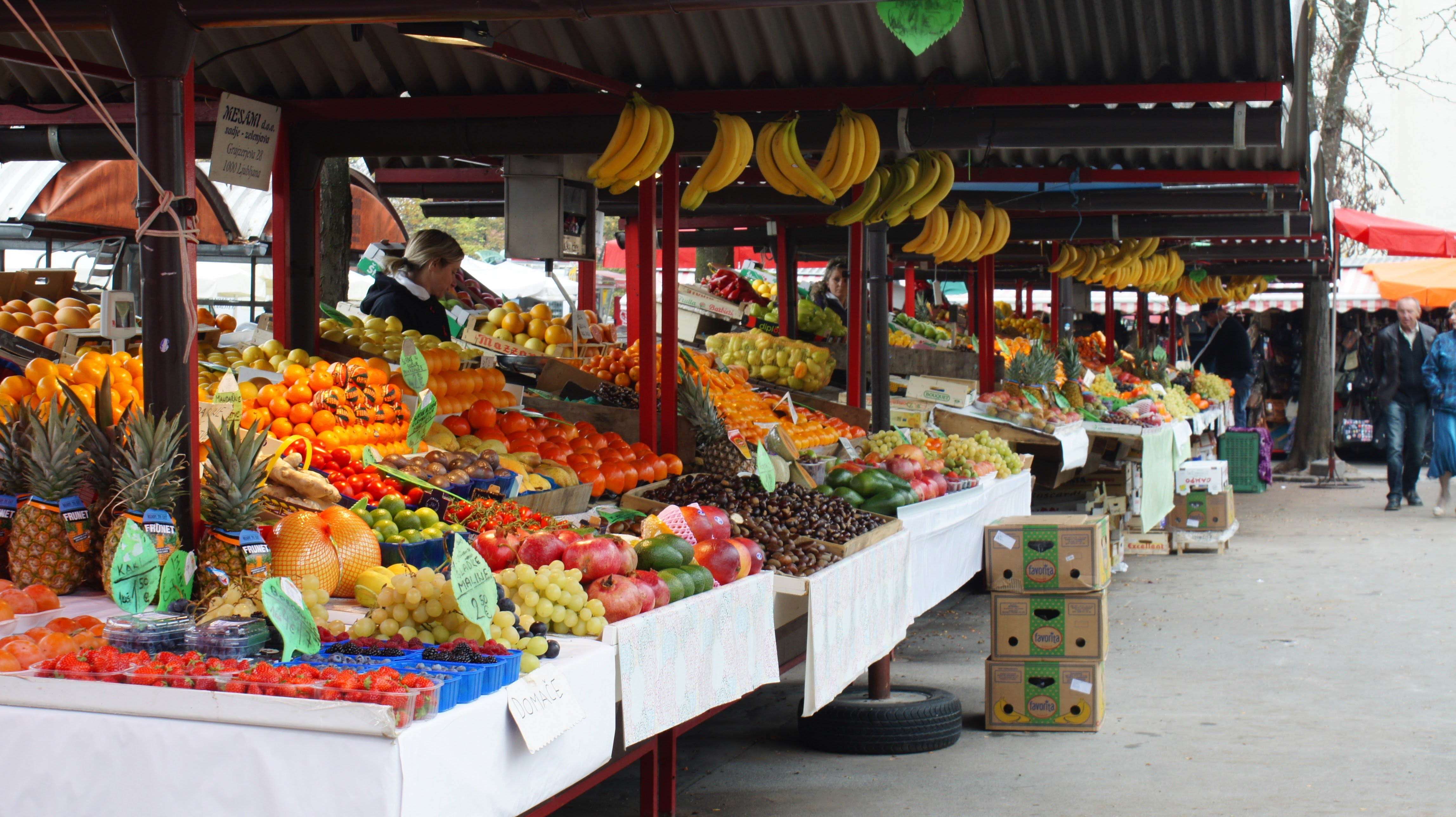 Fruit stalls at Ljubljana Central market with bananas hanging from covers, and a selection of fresh fruits for purchase